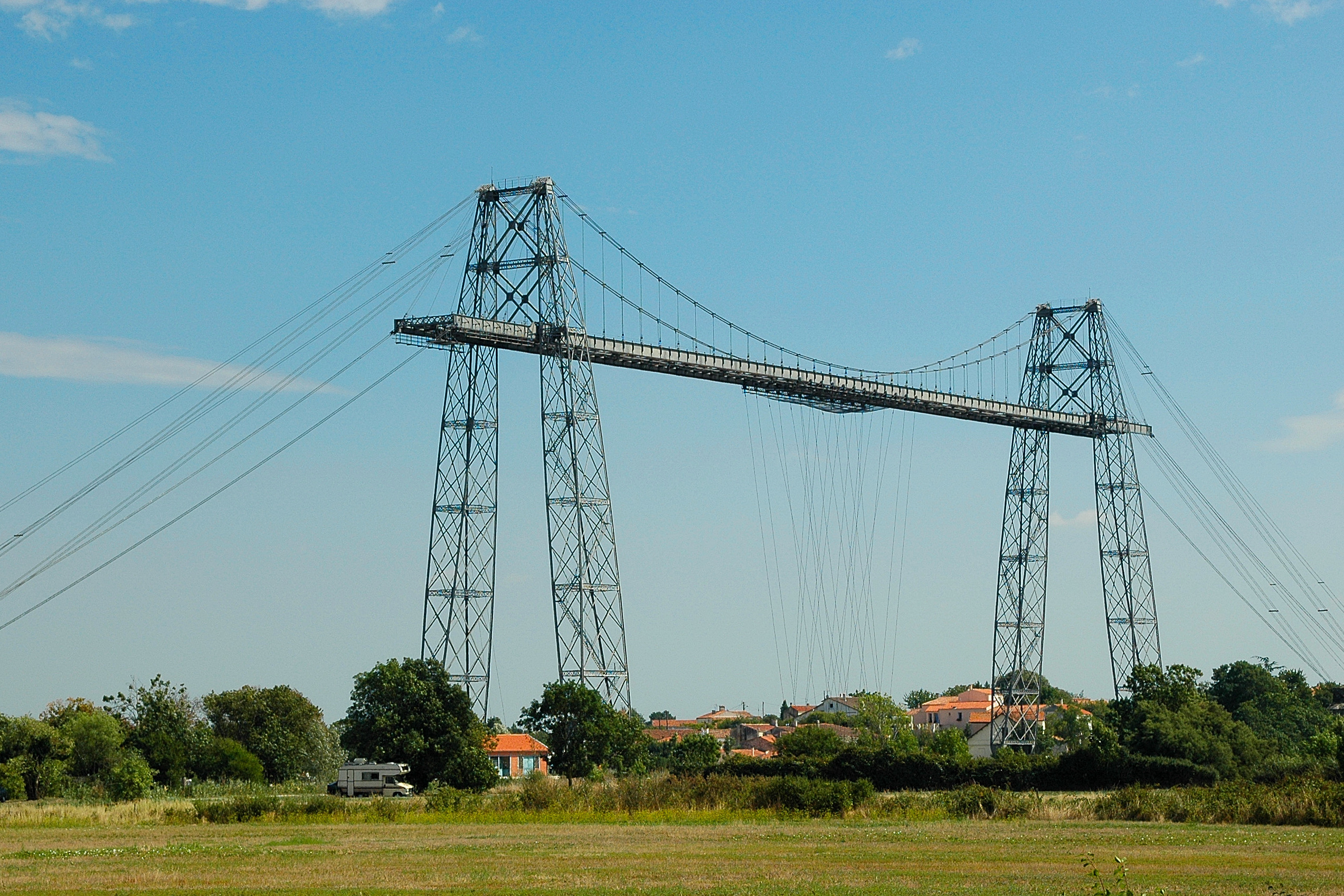 Le pont transbordeur de Rochefort or Pont transbordeur de Martrou, construction of 1900, architect Ferdinand Arnodin (1845 - 1924)